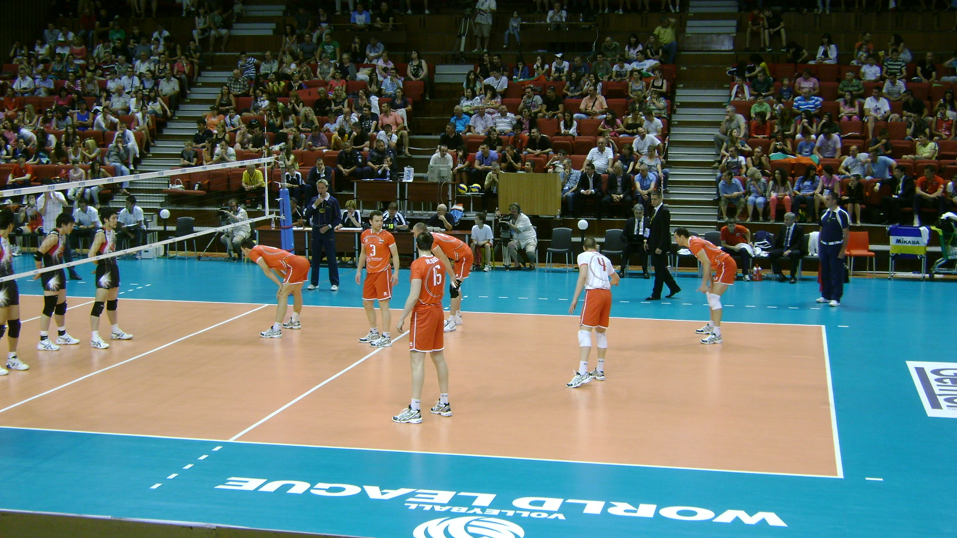 Bulgarian national volleyball team in the match against Japan in the FIVB World League 2011